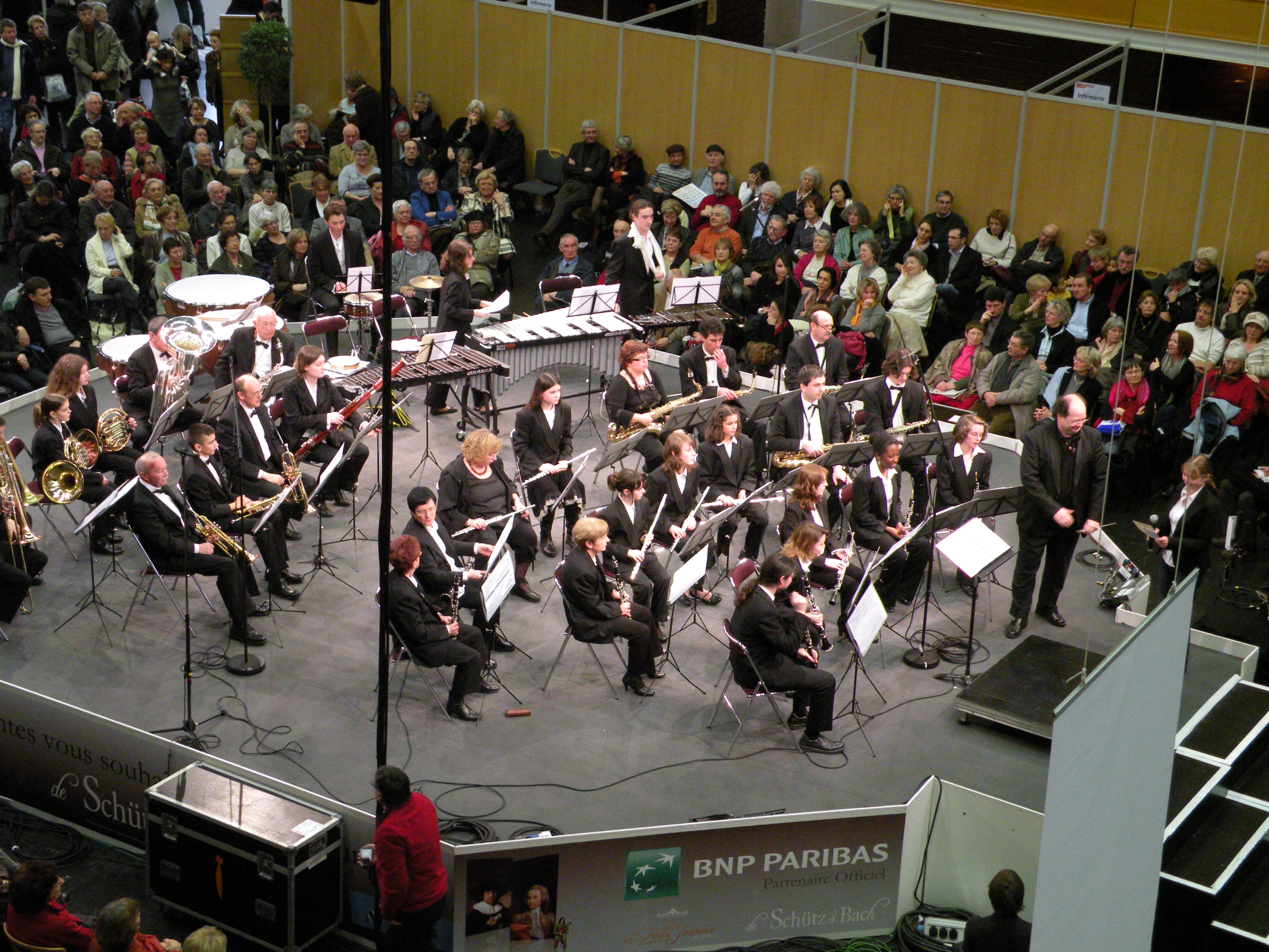 The wind orchestra of Paimbœuf, on 31 January 2009 during La Folle Journée in Nantes.